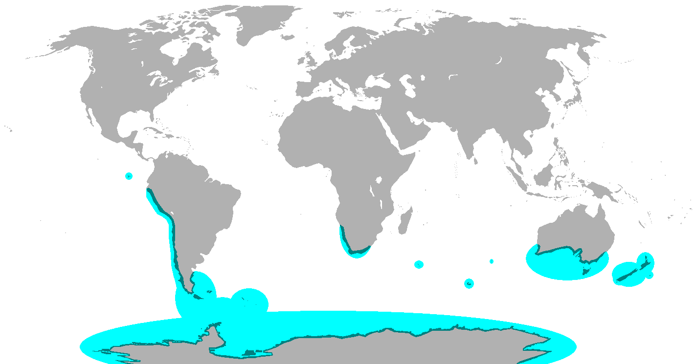 Map showing the range of the penguin.